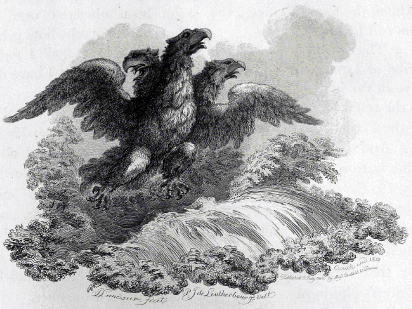 Head-piece to second book of Esdras, vignette with three headed eagle flying above a wave; letterpress in two columns below and on verso. 1812, published 1815. Inscriptions: Lettered below image with production detail: "J Landseer fecit/Crouch end 1812", "P J de Loutherbourg delt", and publication line: "Published 3 July 1815 Mess Cadell & Davies". Print made by John Landseer. Dimensions: height: 490 millimetres (sheet); width: 393 millimetres (sheet).